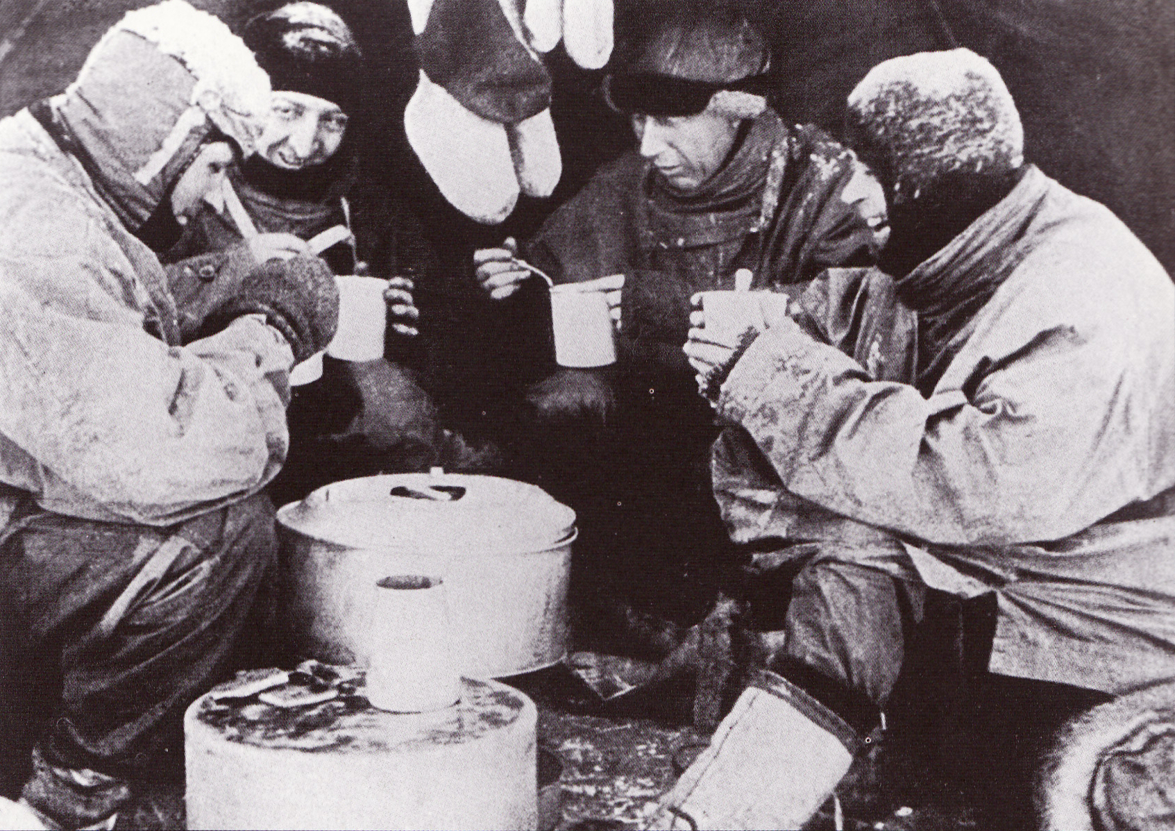 Mealtime during the Terra Nova Expedition. From left to right: Evans, Bowers, Wilson and Scott.